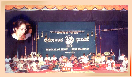 Instrumental ensemble directed by Shyamala G. Bhave, held at Ravindra Kalakshetra, Bangalore